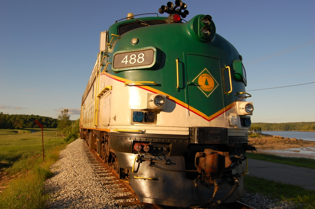 Maine Eastern Railroad locomotive no. 488. A model FL9 dual power electro-diesel locomotive.